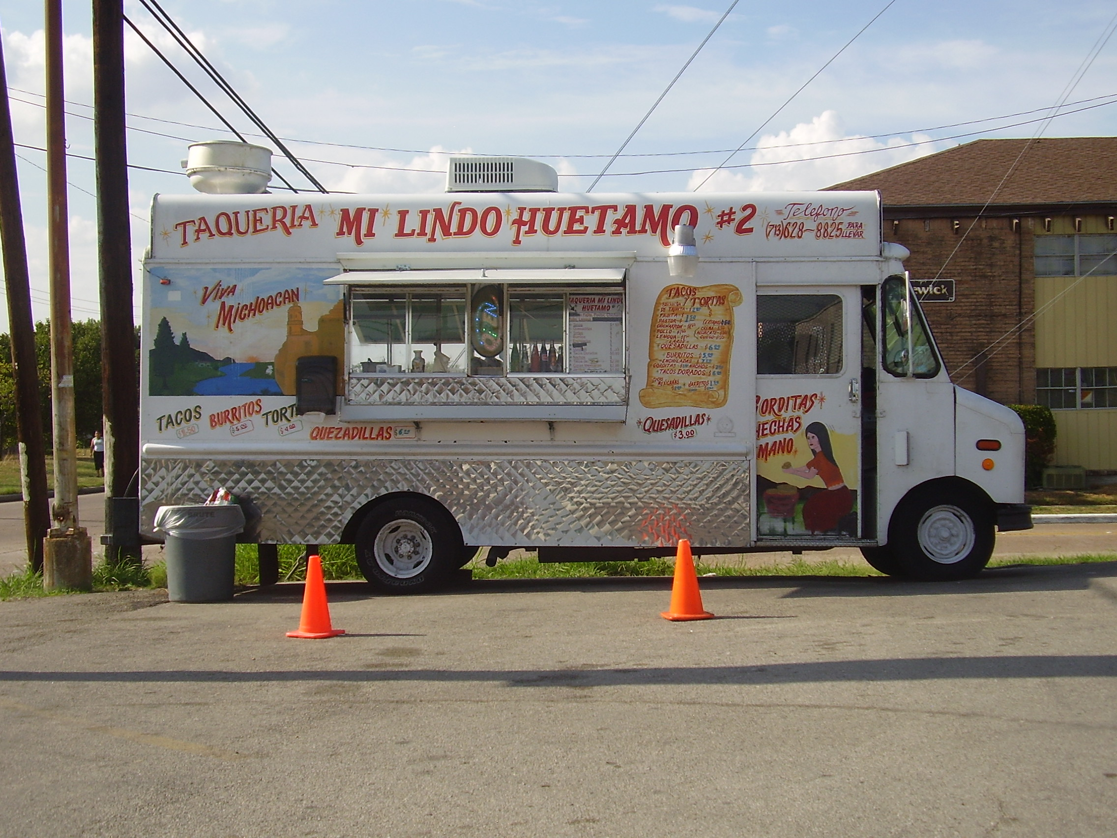 Taquería Mi Lindo Huetamo (my cute/nice Huetamo taco shop) #2 (taco truck), Houston, TX